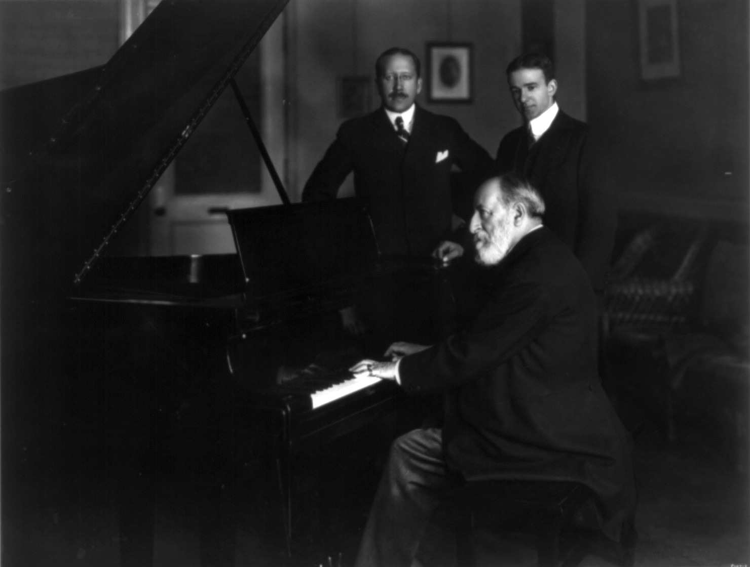 French composer Camille Saint-Saëns (1835-1921) seated at the piano.